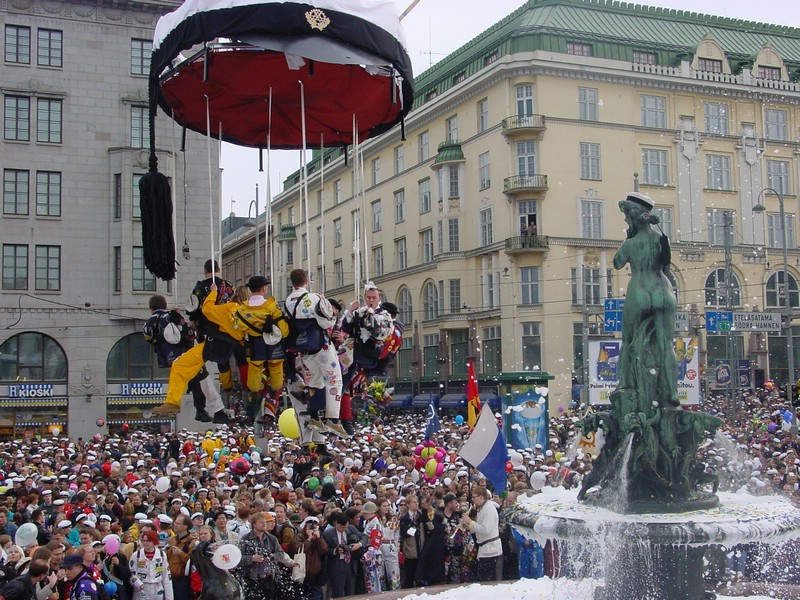 Havis Amanda during the 2002 1st of May celebrations in Helsinki.